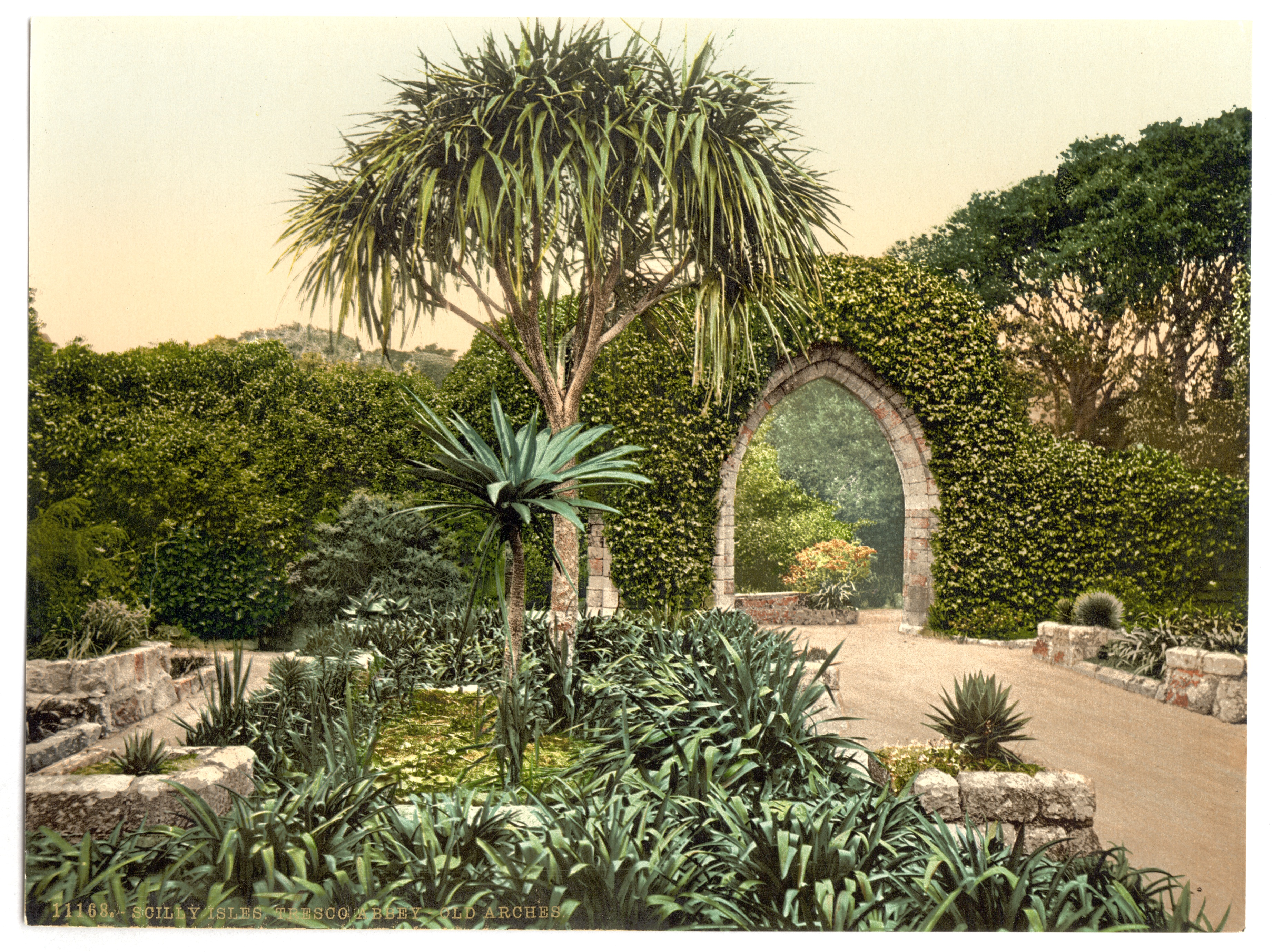 Print no. "11168".; More information about the Photochrom Print Collection is available at Title from the Detroit Publishing Co., Catalogue J-foreign section, Detroit, Mich. : Detroit Publishing Company, 1905.; Forms part of: Views of the British Isles, in the Photochrom print collection.